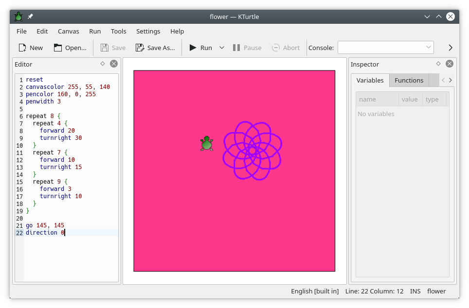 Screen shot of KTurtle on a KDE desktop. KTurtle is part of the KDE-EDU module.